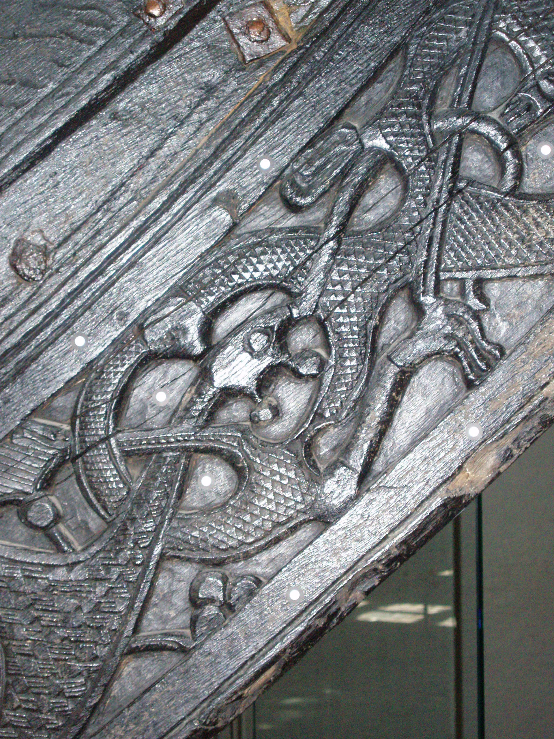 Detail from the back bow of the Oseberg ship.